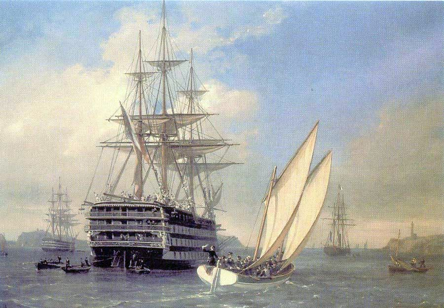 visit Empress Eugenie aboard Borda ( former Valmy ) July 26, 1867